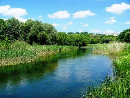 The Valuy river